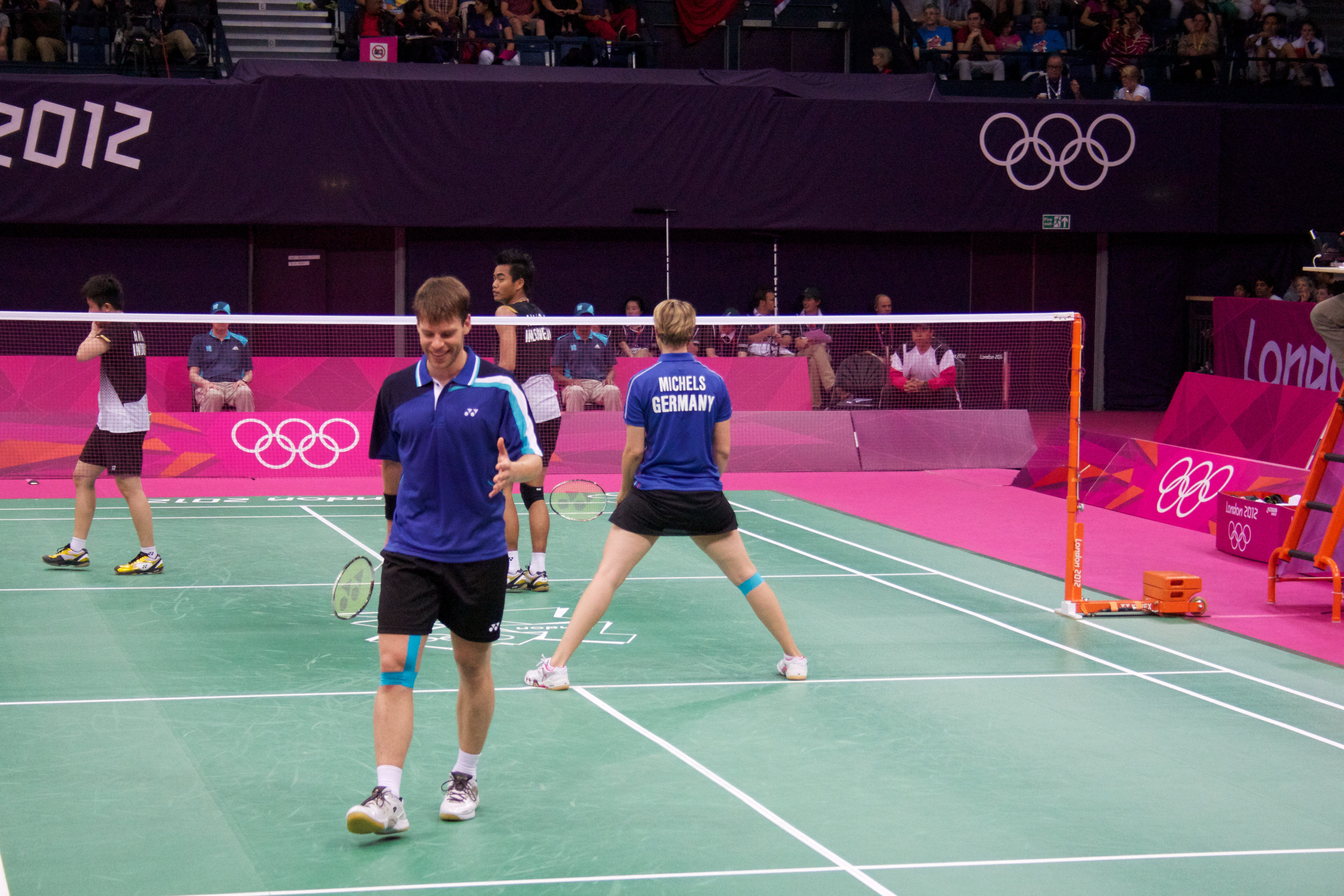 Badminton at the 2012 Summer Olympics